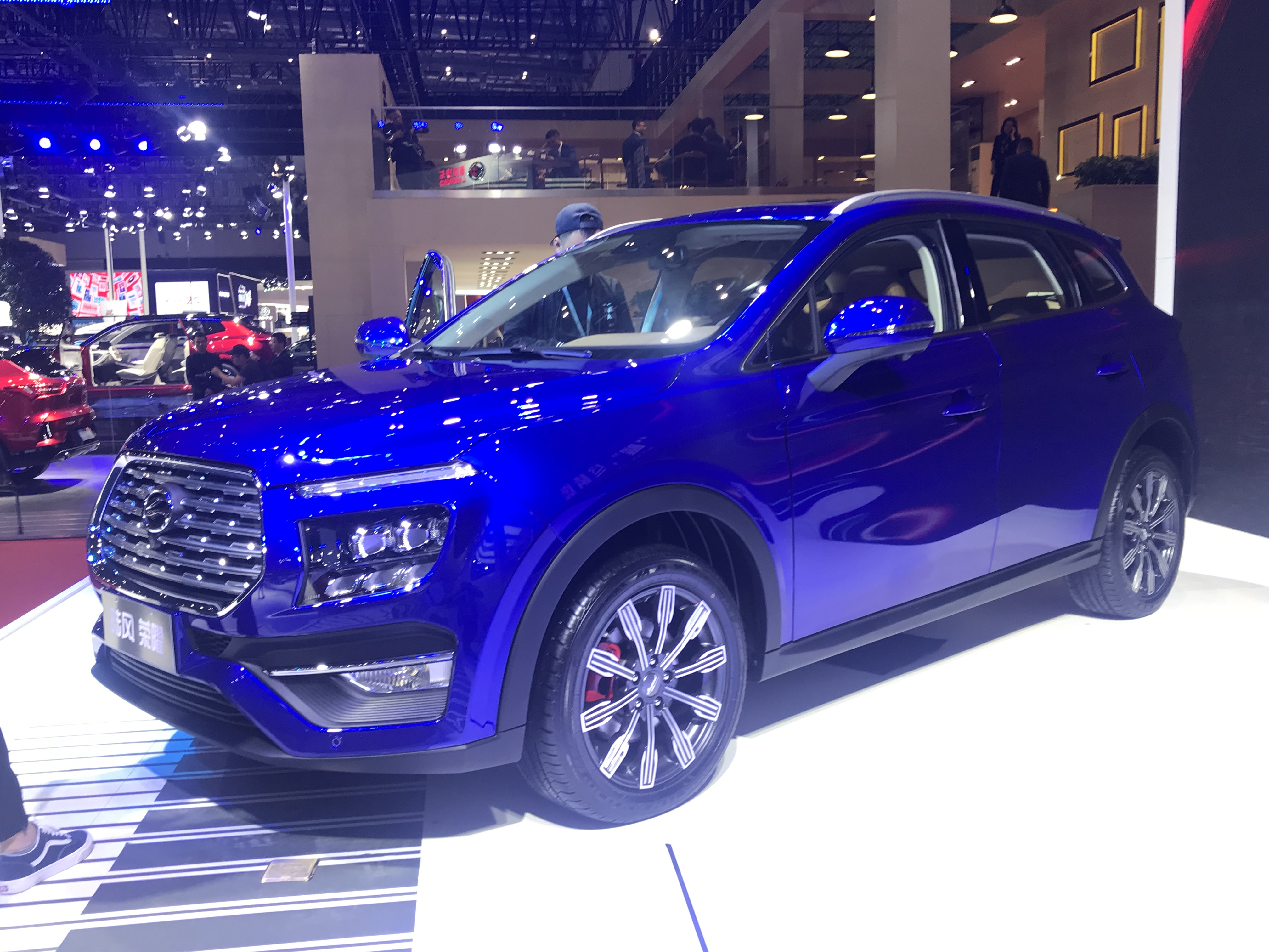 Landwind Rongyao front